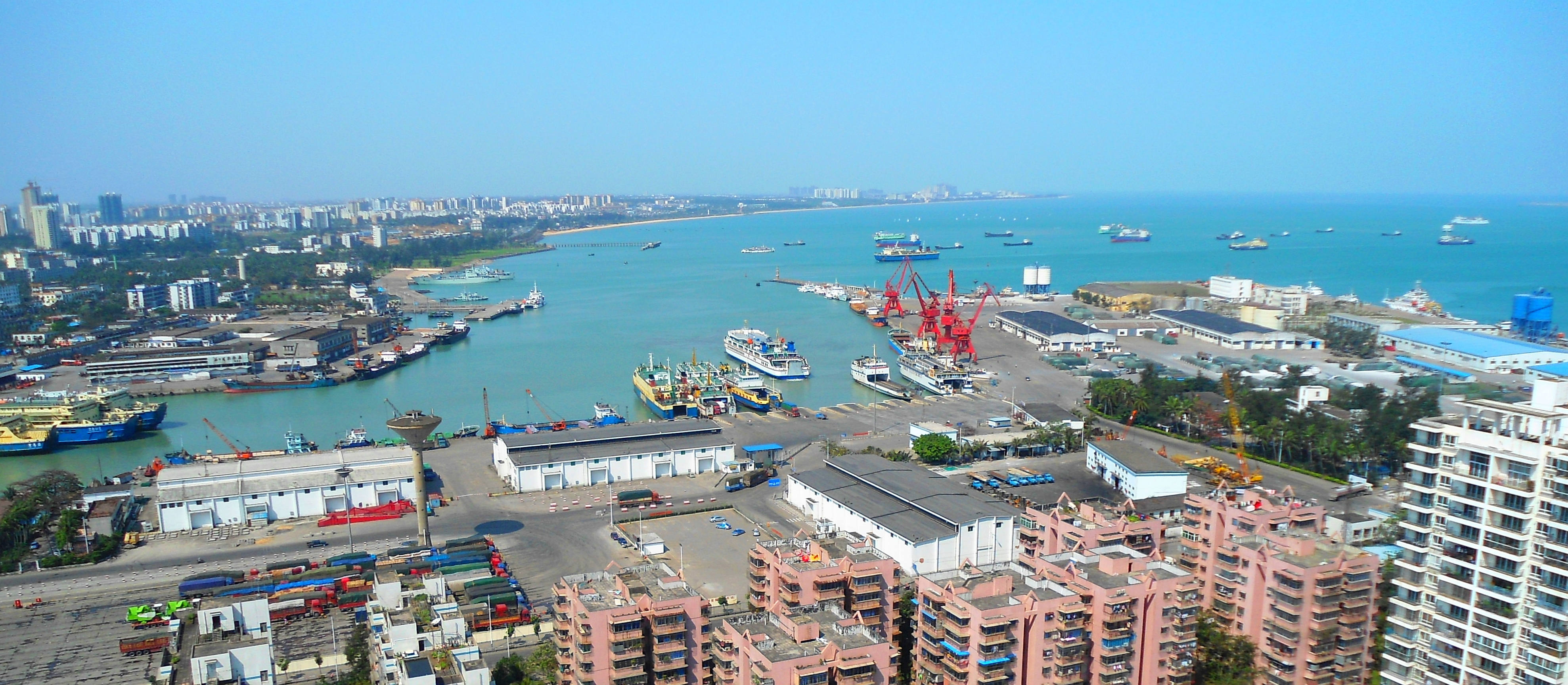 Haikou Xiuying Port, Haikou, Hainan Province, People's Republic of China